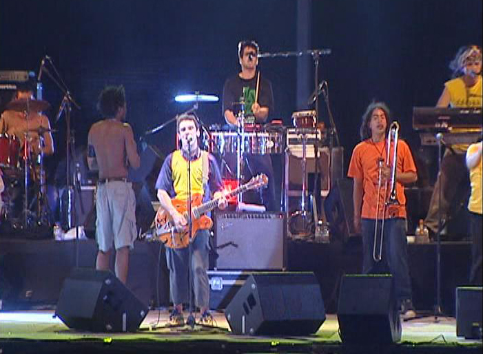 Manu Chao in a concert at Xixón (Asturies - Spain)